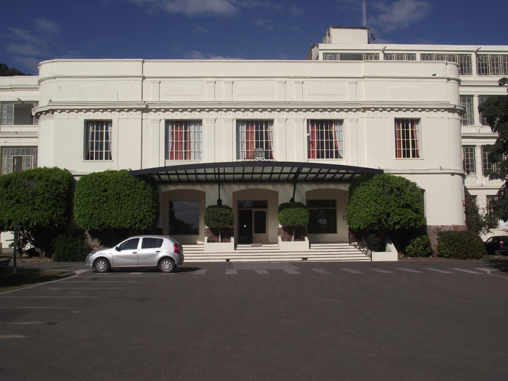 Hotel Termas de Rosario de la Frontera - Salta